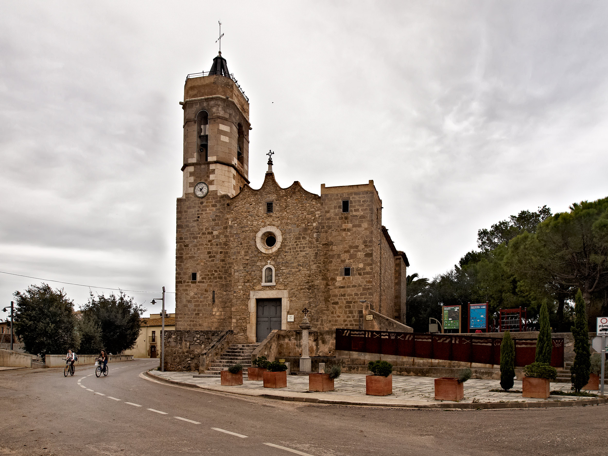 Sant Mamet church of Riumors, Catalonia, Spain.